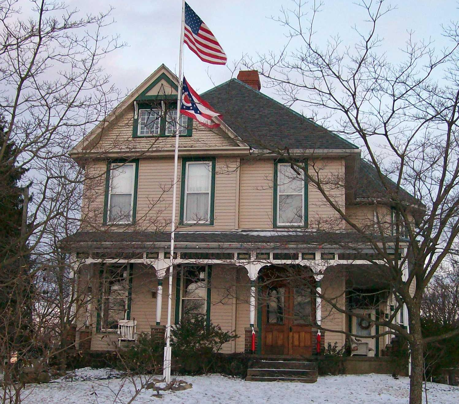 West View western facade on Sunkel Boulevard in Zanesville, Ohio. Taken on 1-28-2010.